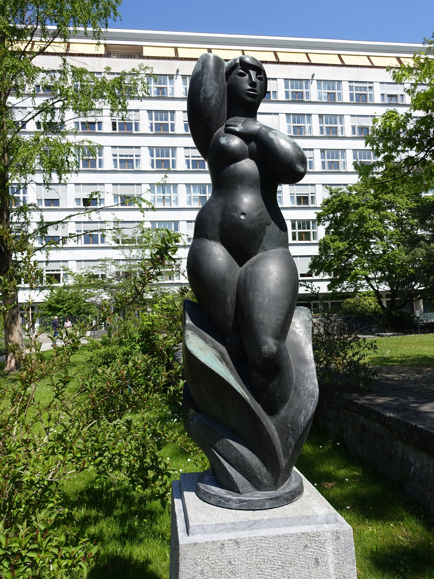 Louis Léon Weber (1891-1972) Bildhauer. Bronzestatue, 1957, griechische Bergnymphe und Priesterin Daphne. Zuerst bei Neubadschulhaus, nach Beschädigung neuer Standort, Universitätsspital Basel